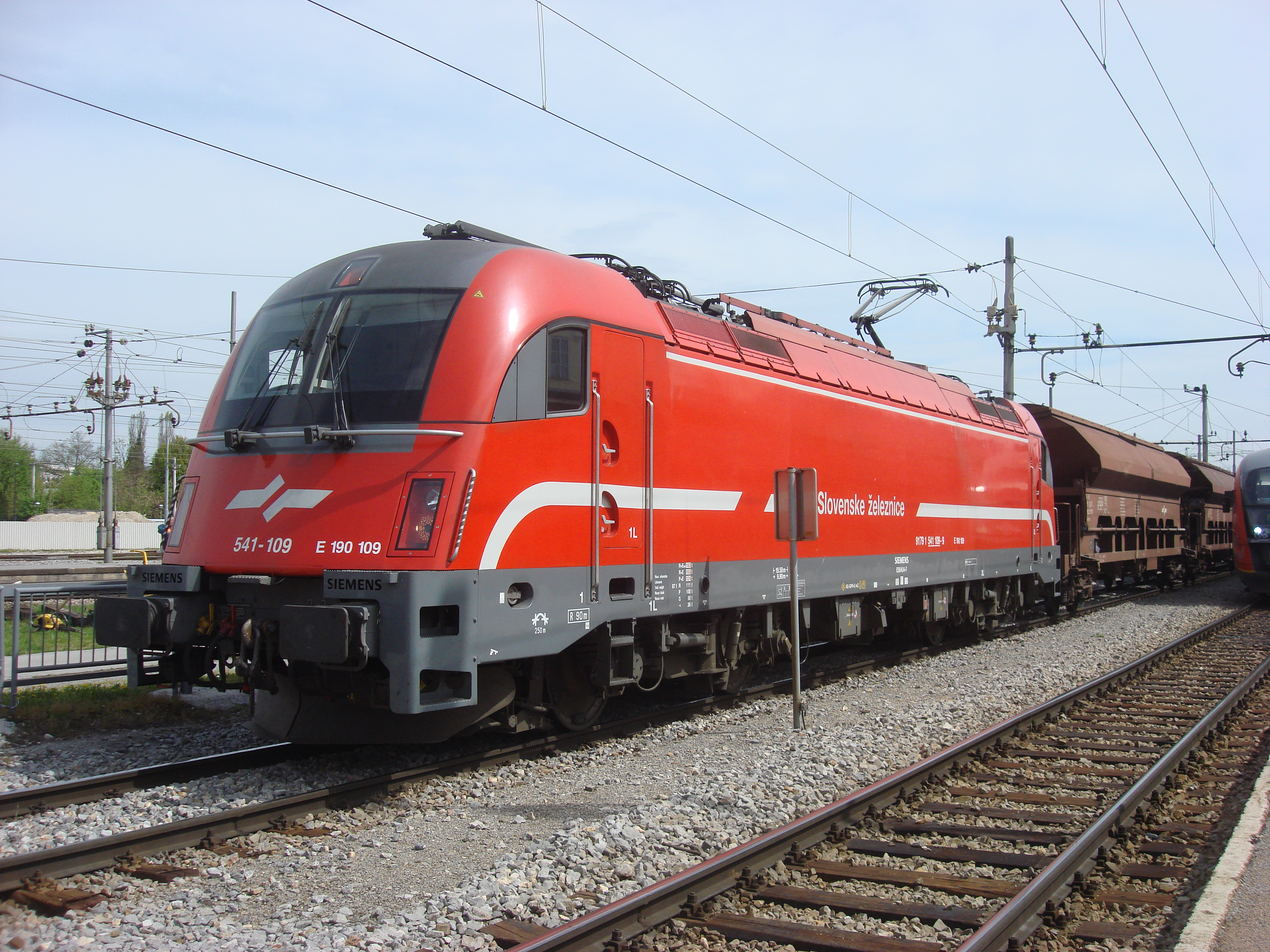 Ljubljana